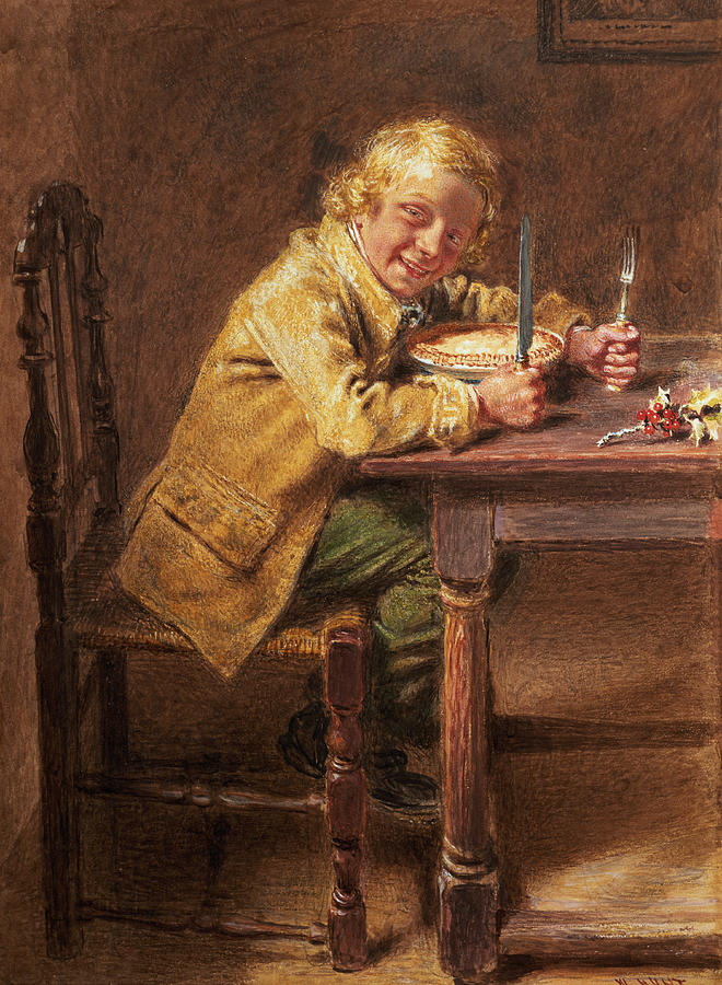 Christmas Pie Fine Art Print by William Henry Hunt